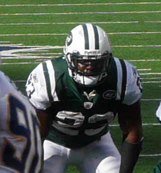 Jets vs. Chargers, 2011.